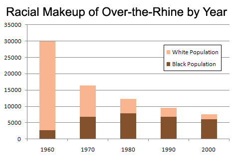 The racial makeup of Over-the-Rhine, based on the below chart taken from the following sources. (See table below for exact numbers.) Miller, Zane L.; Tucker, Bruce (1999). Changing plans for America's inner cities : Cincinnati's Over-the-Rhine and twentieth-century urbanism. Columbus: The Ohio State University Press. pg. 161. Grace, Kevin and Tom White (2003), Cincinnati's Over-the-Rhine, Charleston: Arcadia Publishing, ISBN 073853157X. pg. 8. History: Emergence of a New......